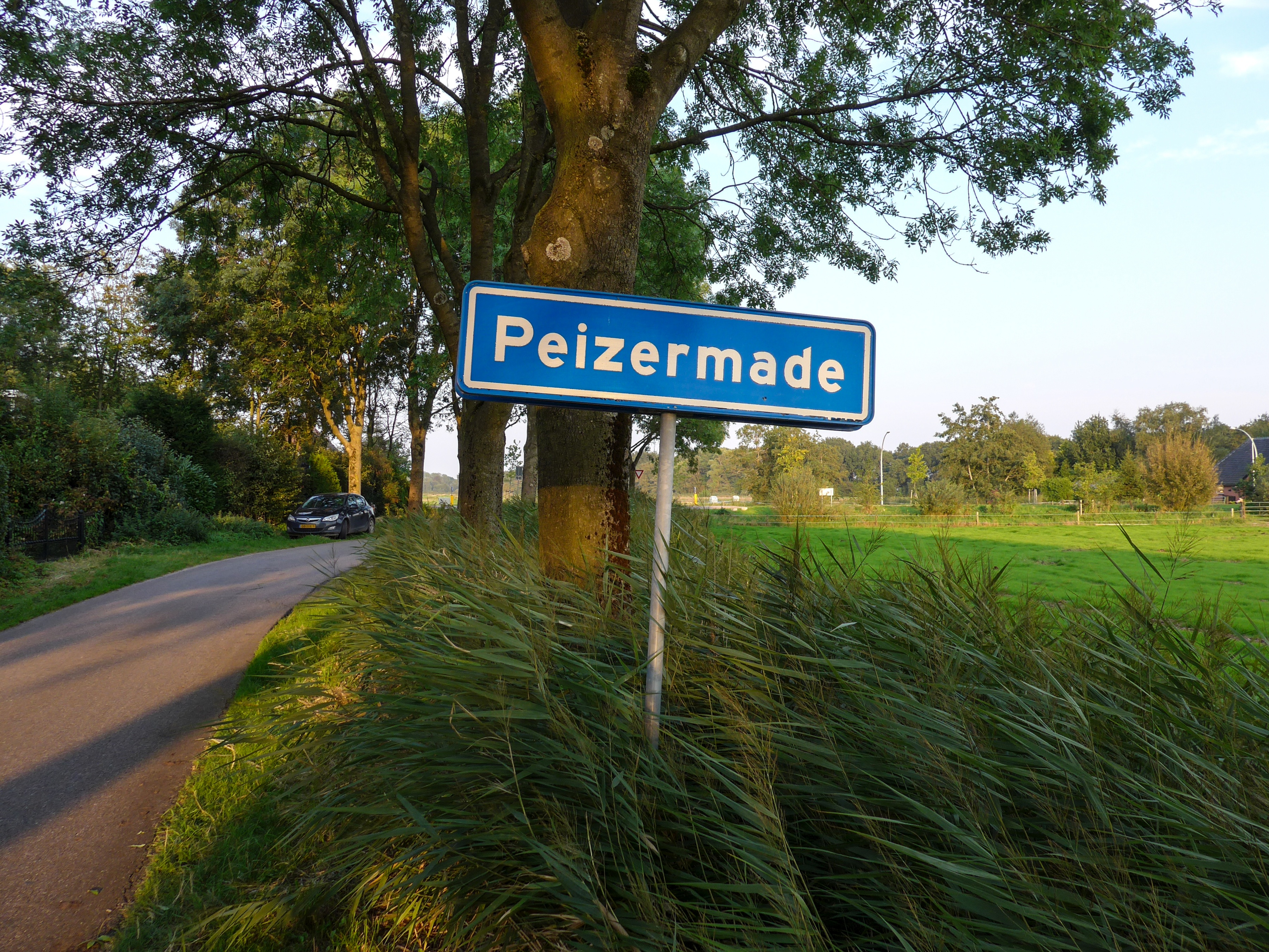 City limit sign in Peizermade, a small village in the Dutch province of Drenthe.